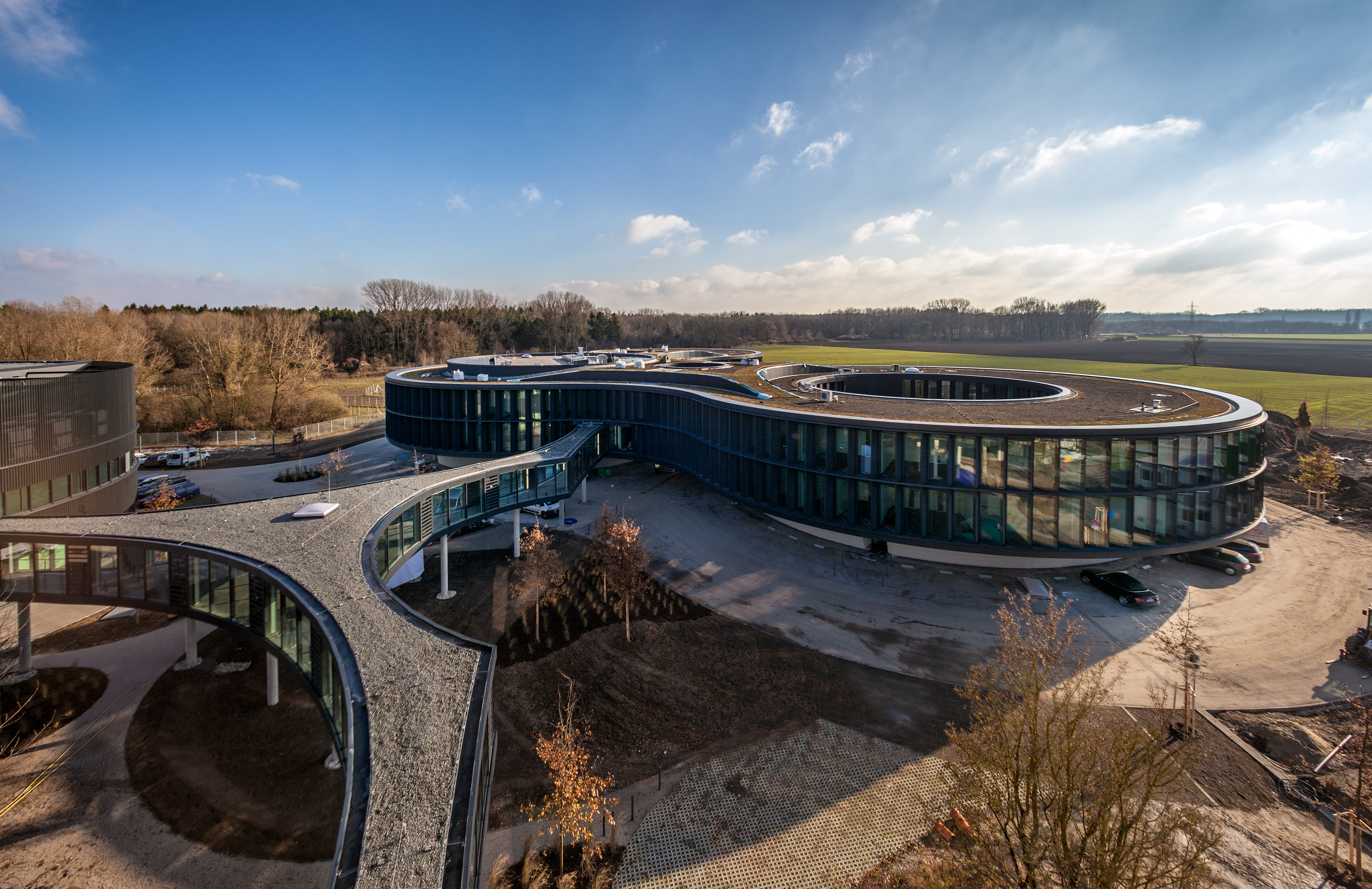 ESO’s new office and conference building in Garching, together with the technical building, have a total area of 13 200 square metres, which more than doubles the total area of ESO Headquarters. The new buildings, which were inaugurated on 4 December 2013, will strengthen ESO’s presence on the Garching research campus, allowing the organisation to further expand its economic and scientific contribution to the region. The new extension appears in the centre of the picture, taken from the roof of the current building. Part of the new technical building is seen to the left and the bridge connecting them in the foreground.